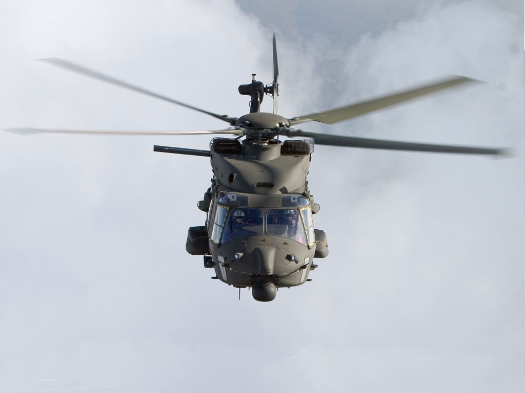 NH90 Helicopter of the Italian Army. Downloaded from the official homepage of the Italian Army.